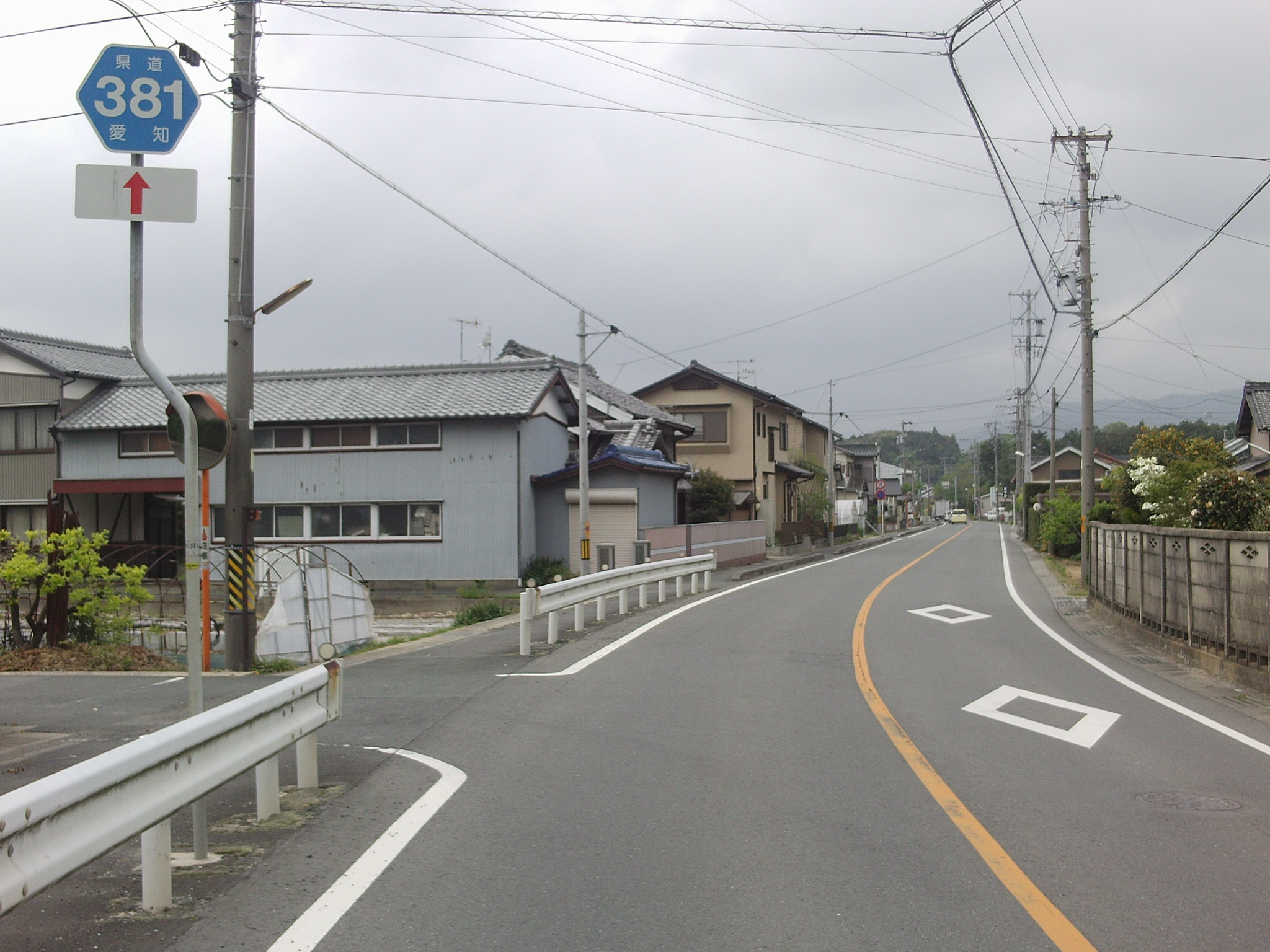 Aichi prefectural road No.381 in Toyotsucho, Toyokawa, Aichi.